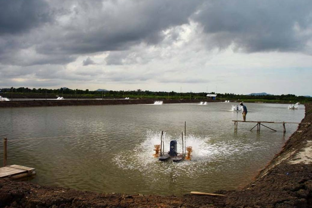 Shrimp pond with paddlewheel aereator on a shrimp farm in Indonesia. The pond is in an early stage of cultivation: plankton has been seeded and grown (hence the greenish color of the water); shrimp fry will be released soon.